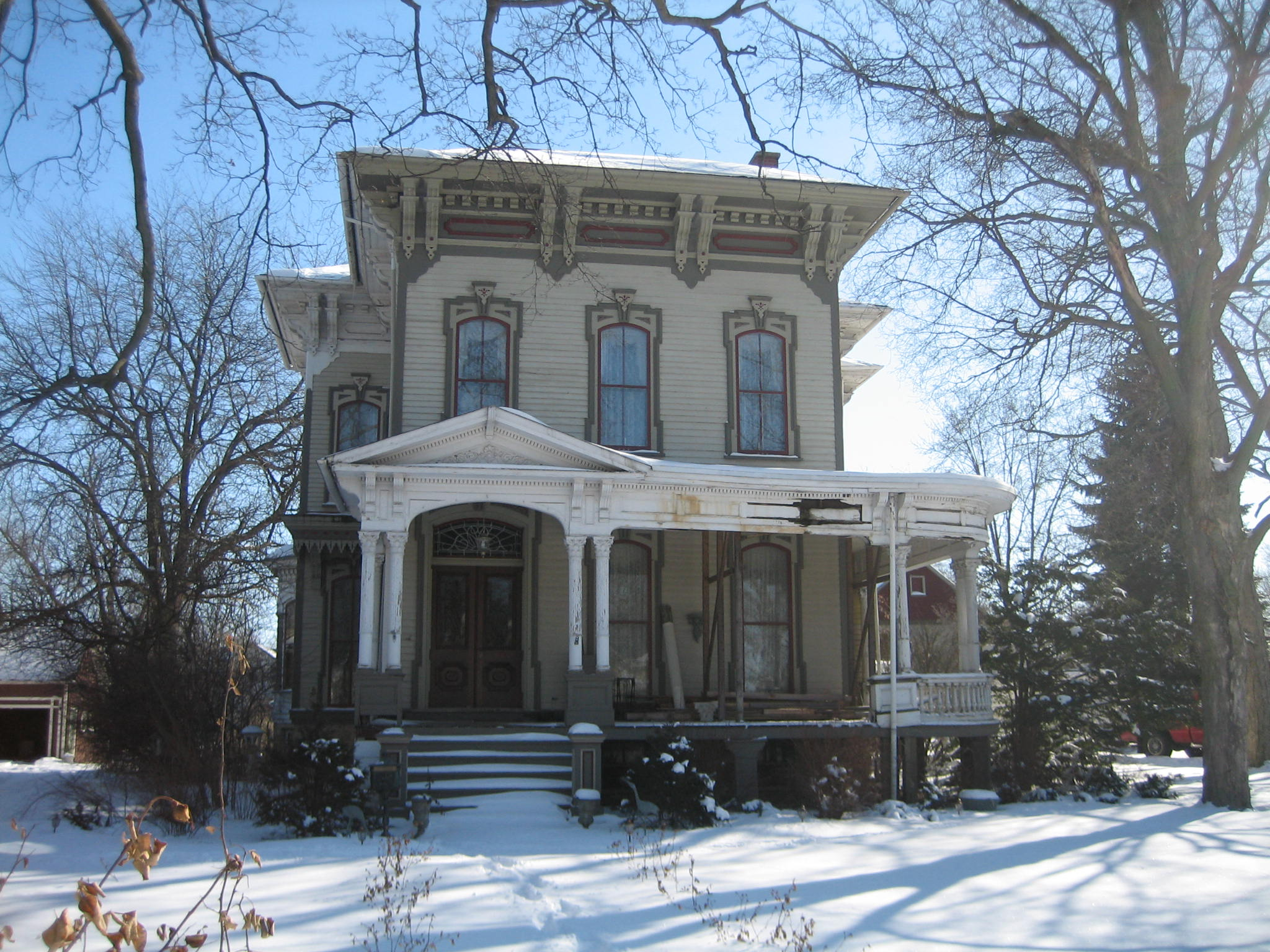 George Wild House, Sycamore, Illinois. Sycamore Historic District, National Register of Historic Places.